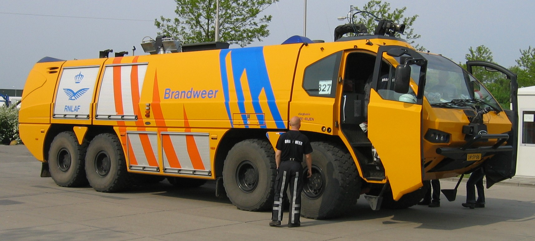 Fire fighting truck of the Dutch Airforce